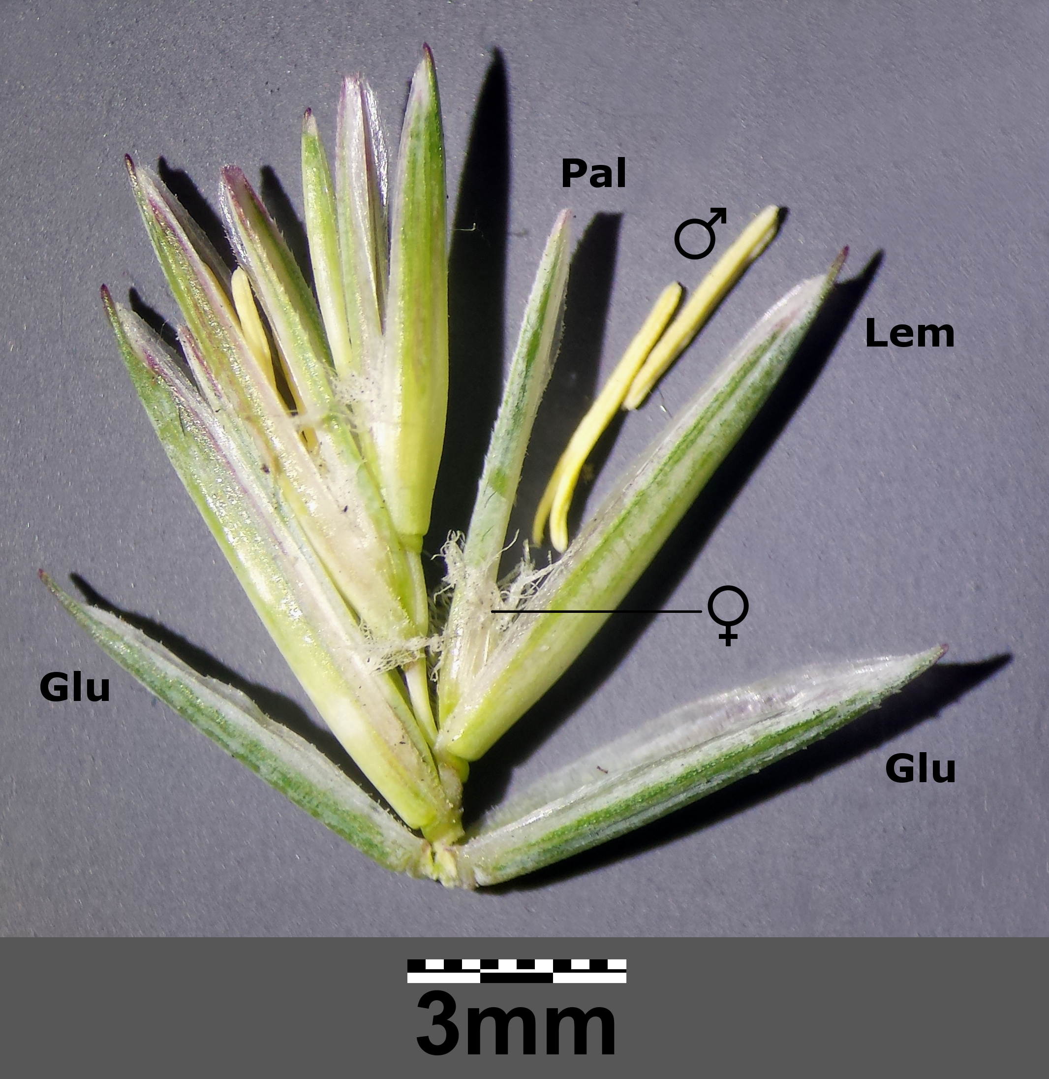 Spikelet, Glu = Gluma, Lem = Lemma, Pal = Palea Taxonym: Elymus repens ss Fischer et al. EfÖLS 2008 ISBN 978-3-85474-187-9 Location: Vienna-Floridsdorf - ca. 160 m a.s.l. Habitat: ruderal meadows